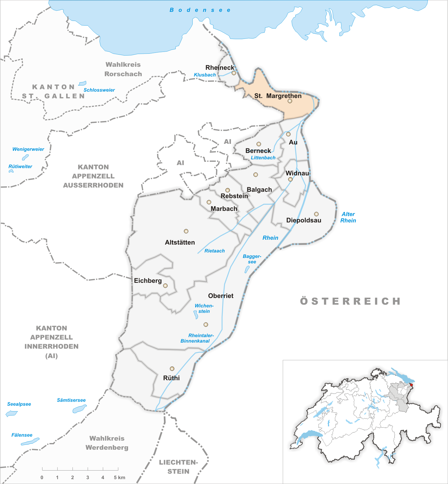 Municipality St. Margrethen